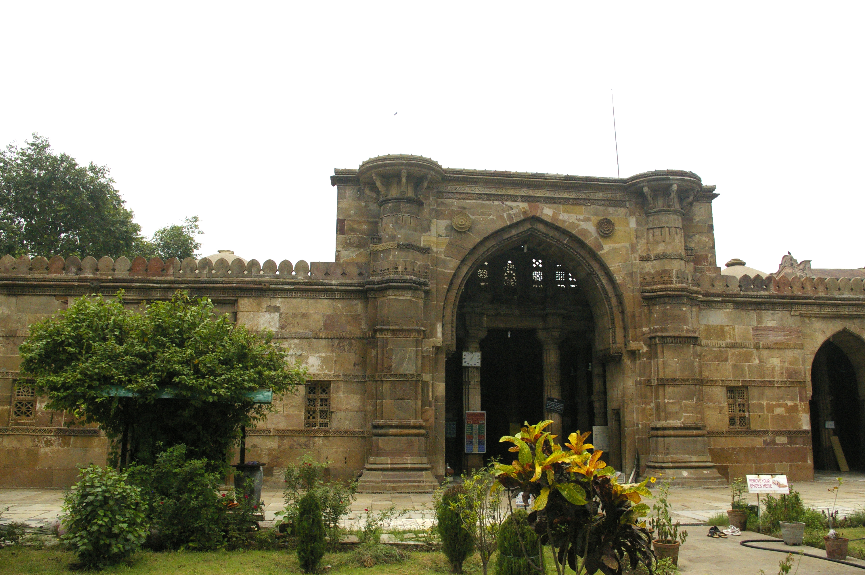 Lying on the left side of the famous Bhadra Fort, the mosque is very appealing to look at. It is one of the oldest mosques of Ahmedabad.